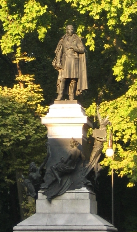 Statue of Domenico Rossetti at the public park Muzio de Tommasini in Trieste